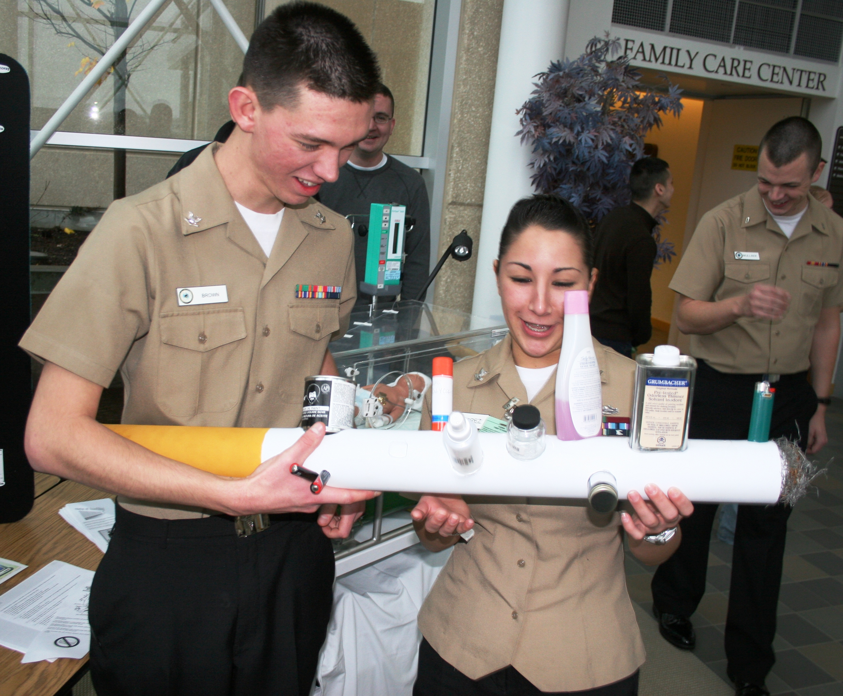 BREMERTON, Wash. (Nov. 19, 2009) Hospital Corpsman 2nd Class Monique Lopez and Hospital Corpsman 3rd Class Daniel Brown, both assigned to the Naval Hospital Bremerton, participate in the Great American Smokeout and display a model cigarette that features chemicals and additives to the cigarette. (U.S. Navy photo by Doug Stutz/Released)